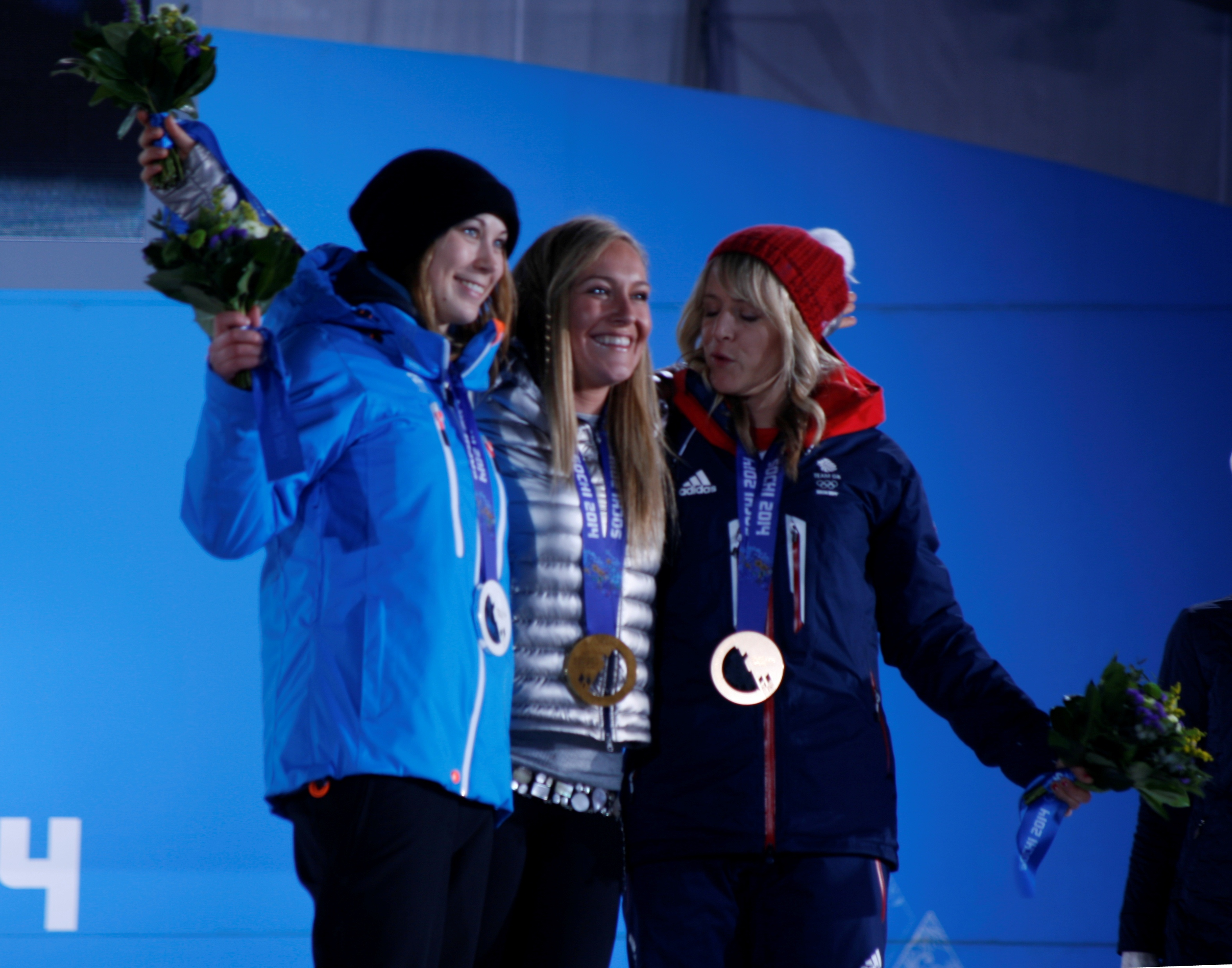 L-R: Enni Rukajärvi, Jamie Anderson and Jenny Jones on the podium after the Women's Slopestyle event at the 2014 Winter Olympics in Sochi.